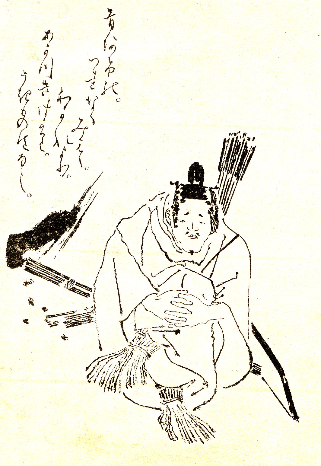 Mibu no Tadamine (壬生忠岑) was an early Heian waka poet of the court.This picture was drawn by Kikuchi Yosai（菊池容斎） who was a painter in Japan.